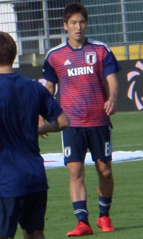 Genki Haraguchi at Switzerland vs Japan (June 2018)